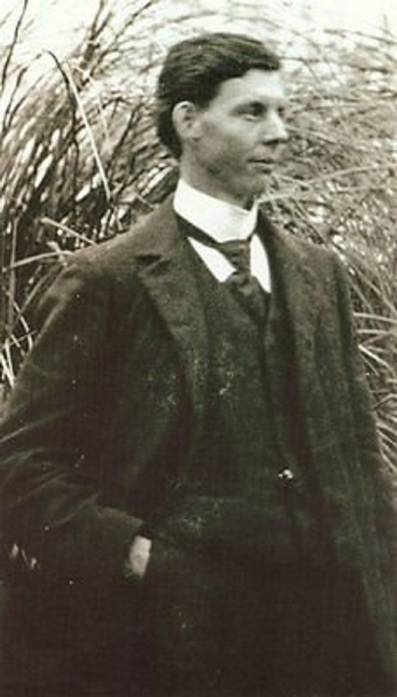 Photo of LSU Head Coach Allen Jeardeau cropped from 1897 LSU Football team photo